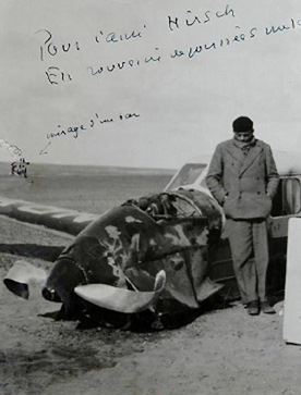 Antoine de Saint-Exupéry standing next to his Caudron C.630 Simoun, crashed in the Sahara Desert at approx. 150 m.p.h. on 30 December 1935, during the Paris-to-Saigon air race. Saint-Exupéry and his copilot-mechanic Prévot miraculously survived unscathed. What does the writing on the photo say?